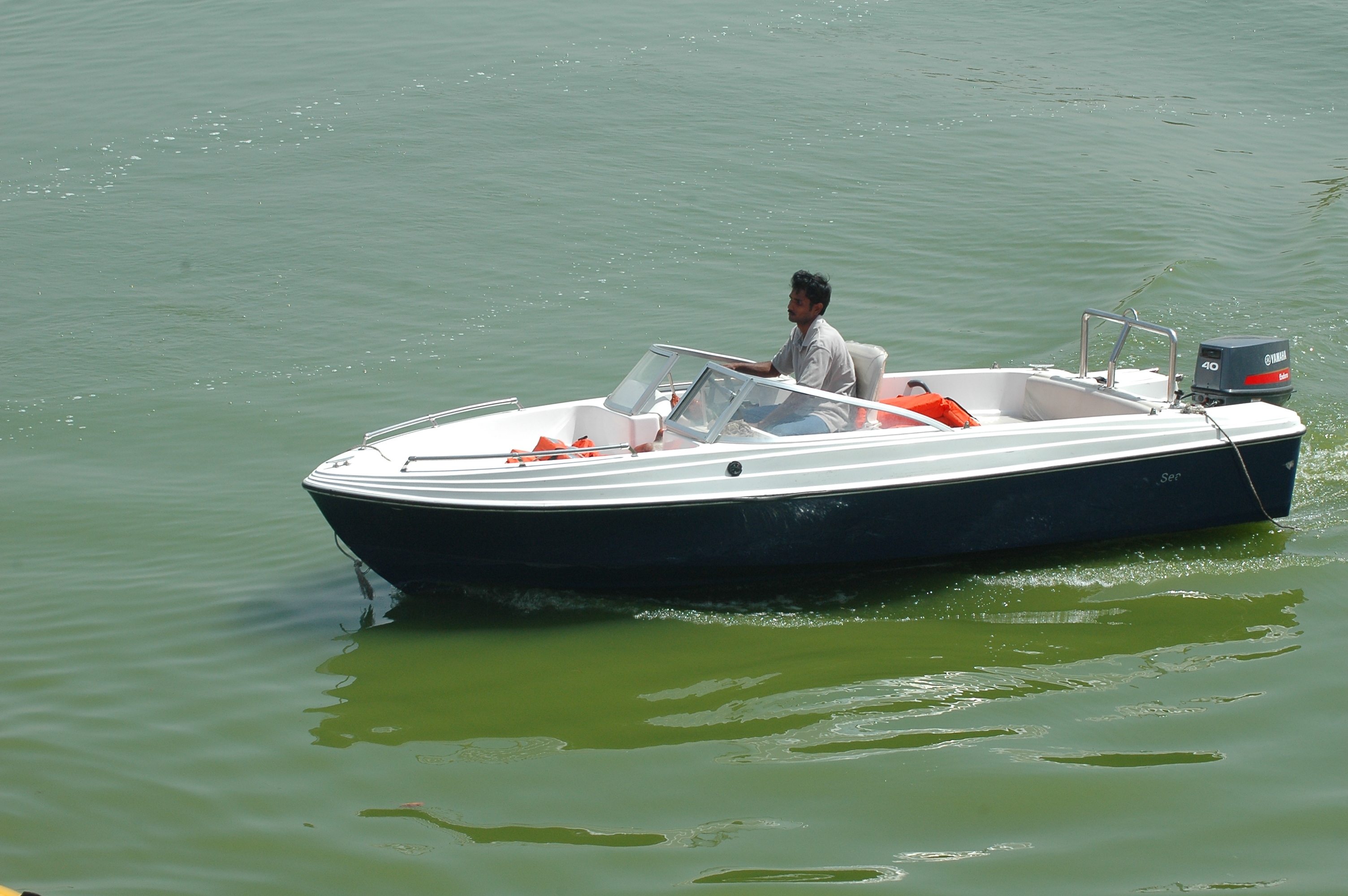 Motorboat being docked at Kankaria lake, Ahmedabad.